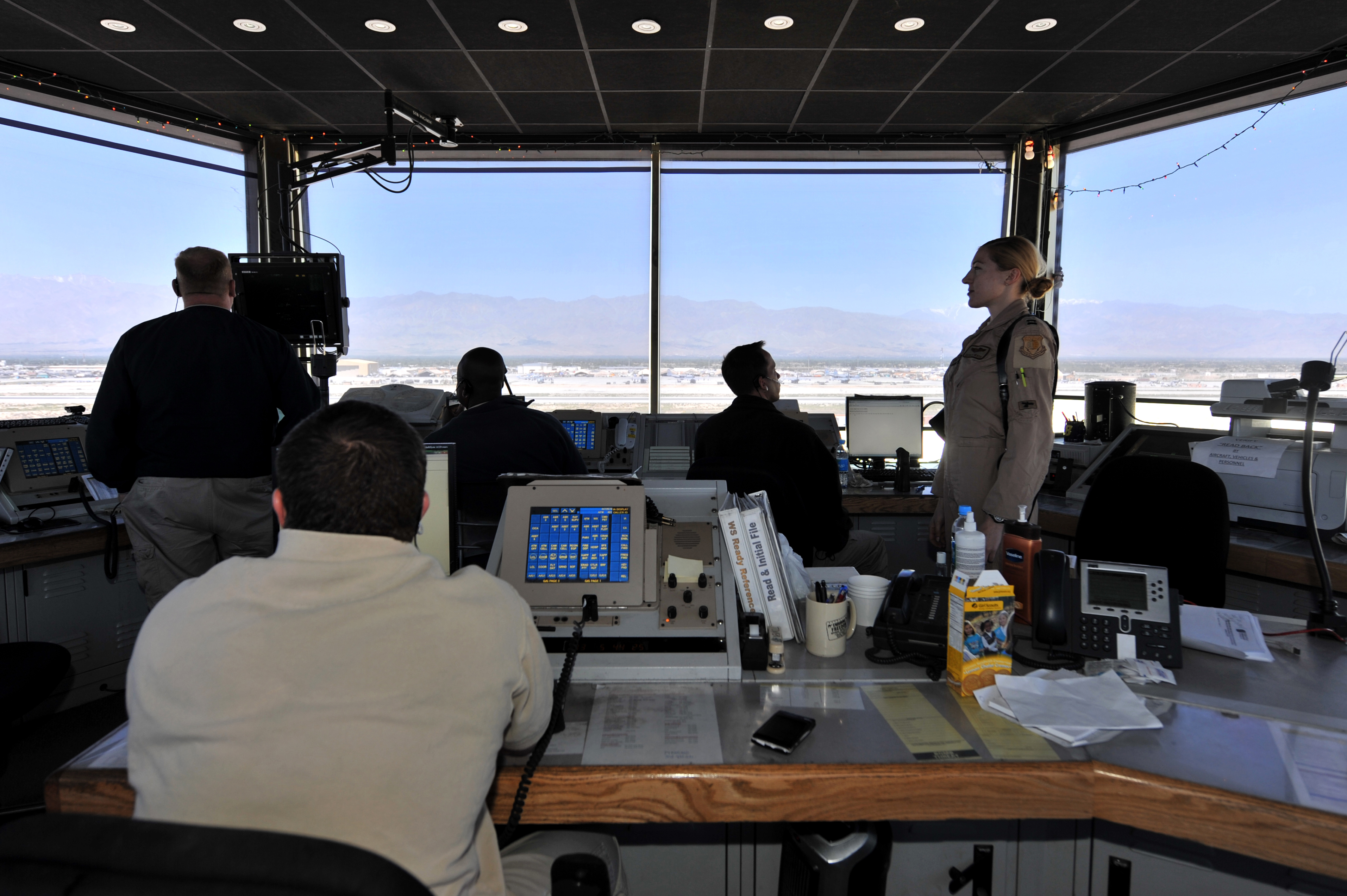 Bagram Control Tower air traffic controllers and supervisor of flying monitors the flight at Bagram Air Field, Afghanistan, May 13. The control tower handles an average of 700 daily operations. (Photo ID: 401063)